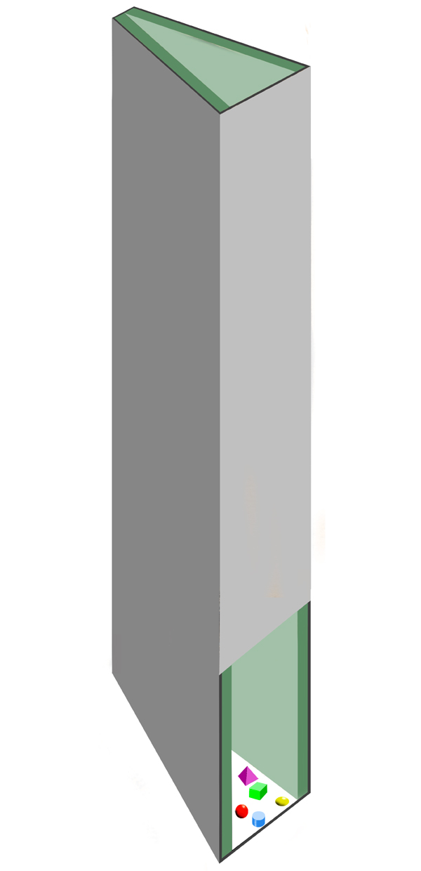 Kaleidoscope showing twelvefold circular images